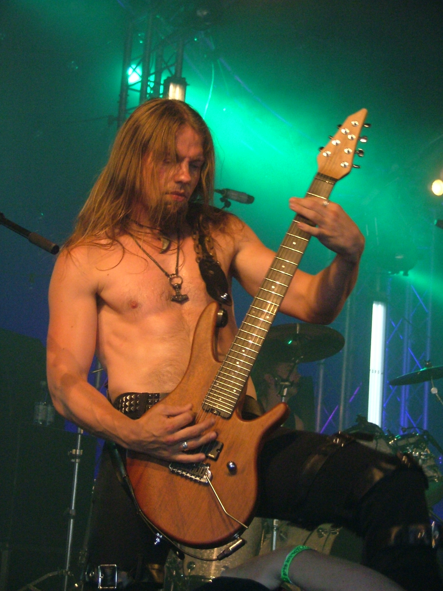 Metal band Týr live at Tuska-Festival